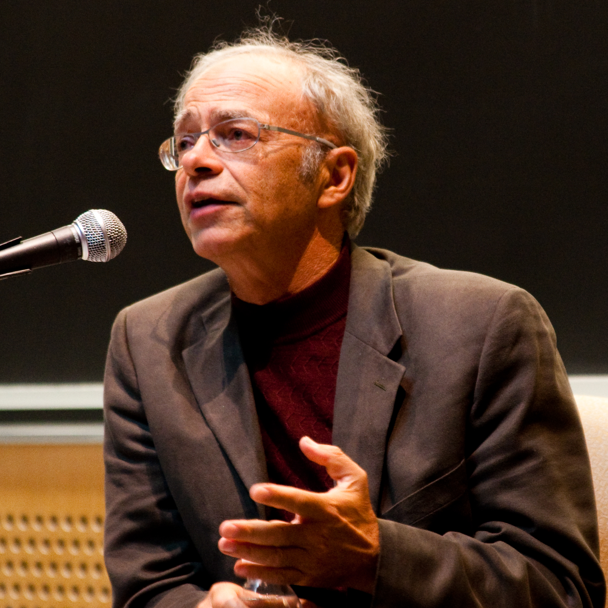 Peter Singer speaking at a Veritas Forum event on MIT's campus on Saturday, March 14, 2009. Veritas Forum: Photo by Joel Travis Sage